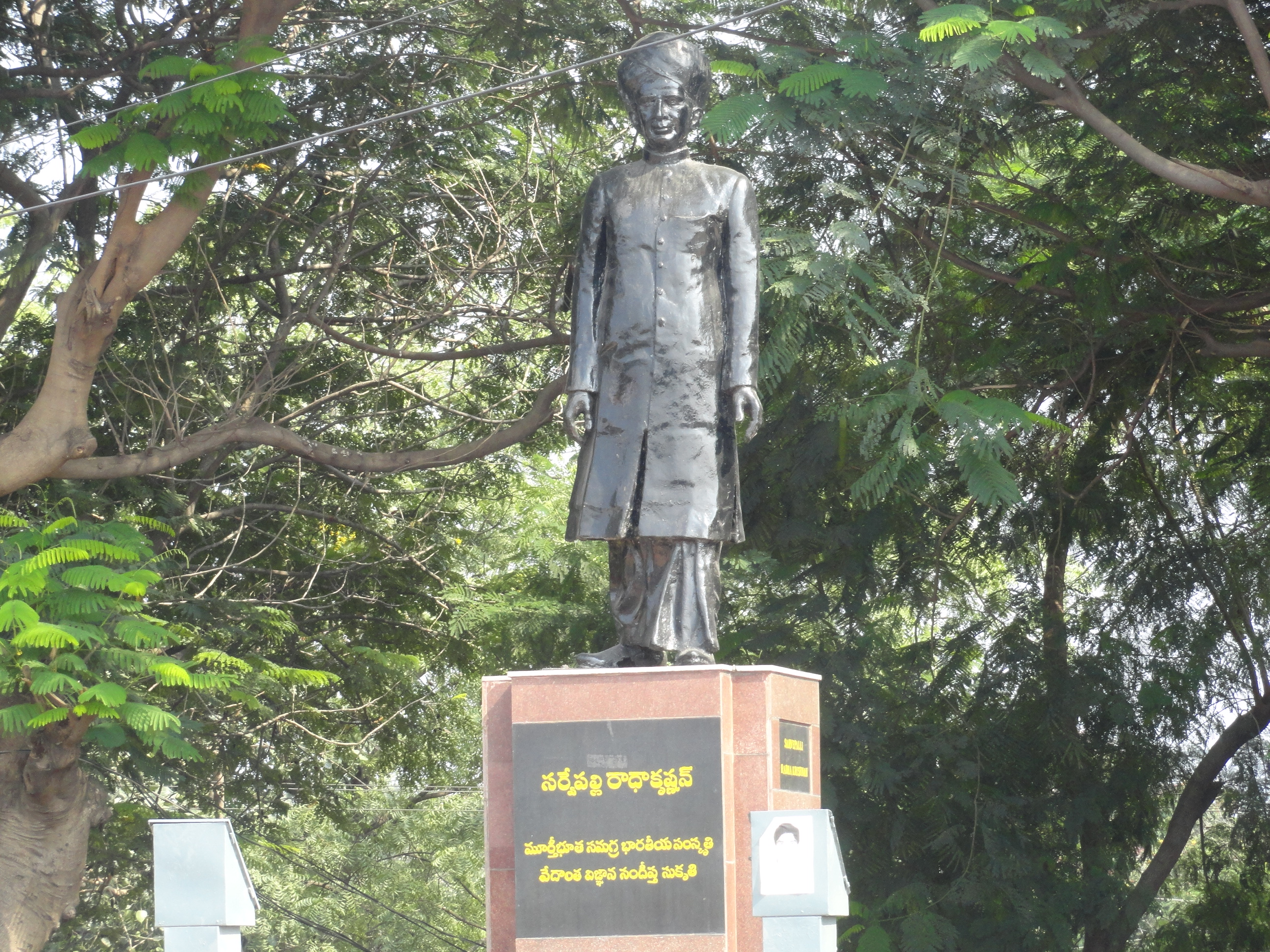 s.r.radhakrishnan, the ex.president of india. statue at tankbund